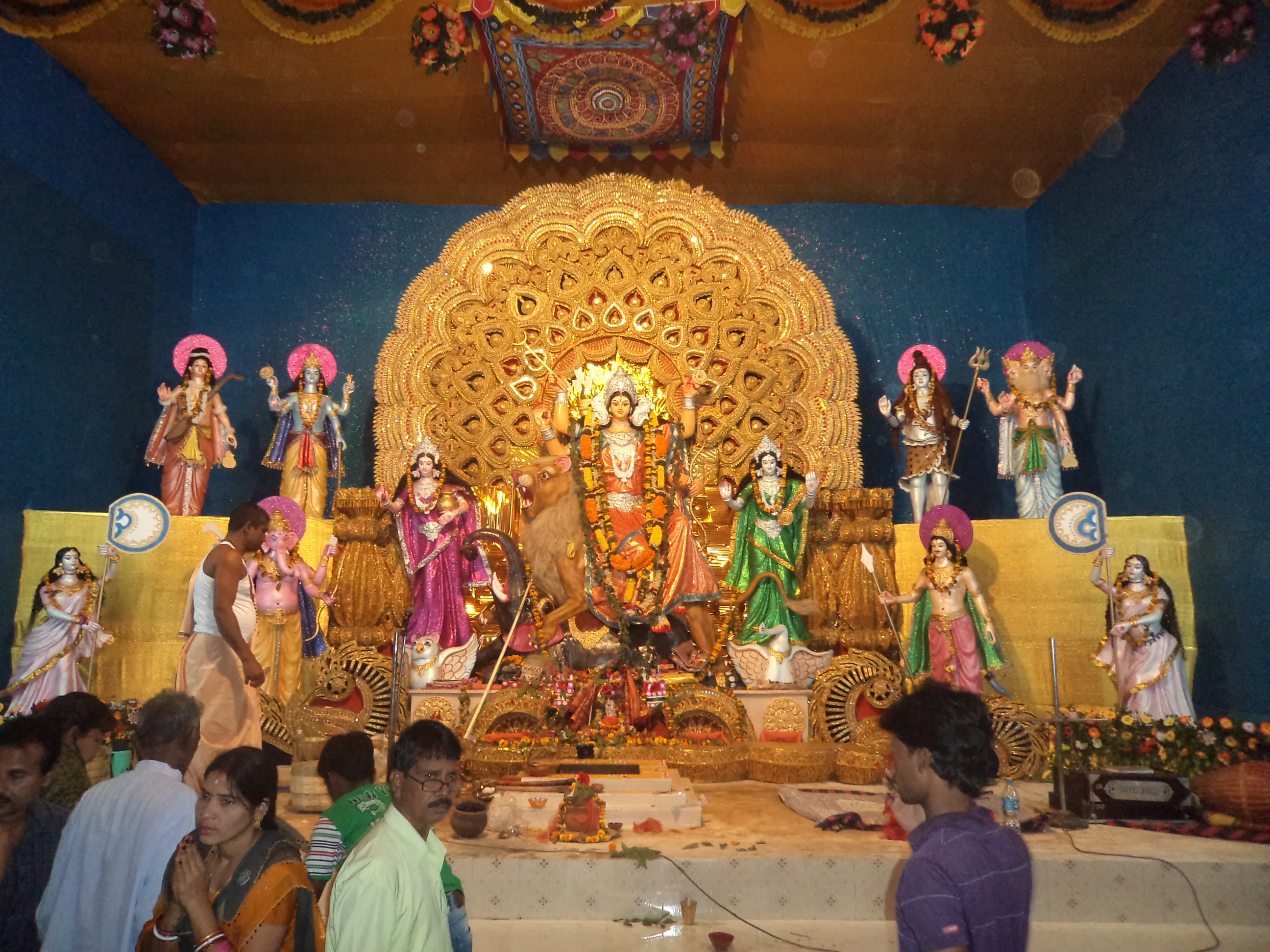 This is a picture of Idol of Maa Jagadhatri 2012 at Jagadhatri Mela, Bhanjpur, Baripada in 2012